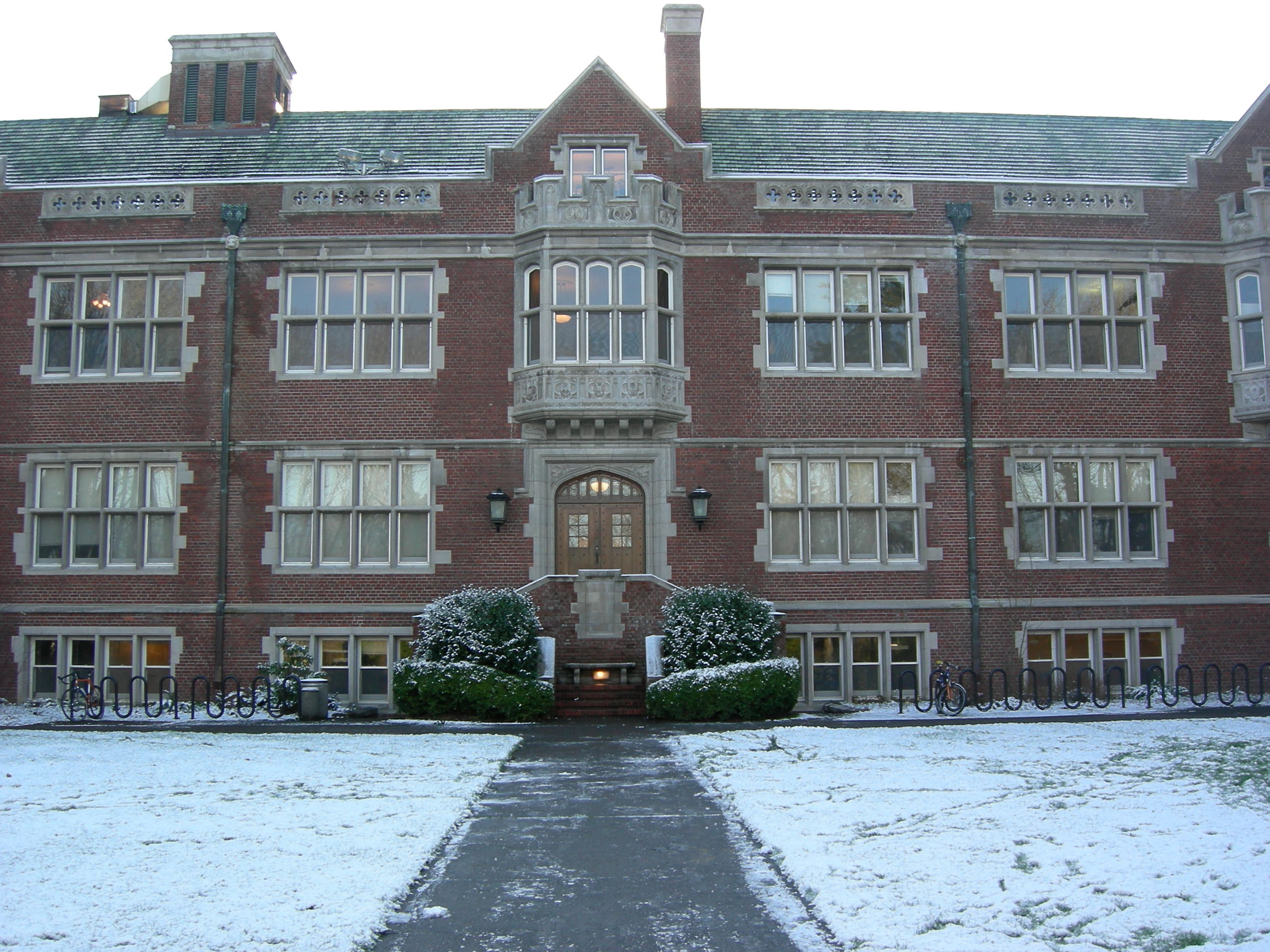 A rare snowy day at Eliot Hall, Reed College, Portland, Oregon, USA